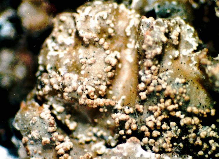 Parmelia saxatilis (L.) Ach. (photograph of a herbarium specimen showing a lobe covered with isidia) Growing on rock at Dolly Sods Wilderness Area, Monongohalea National Forest, West Virgina, USA; collected by C. Fastie, identified by A. Norden (No. L-289, 23 Sep 1978); specimen is now in the Lichen Herbarium of the New York Botanical Garden.